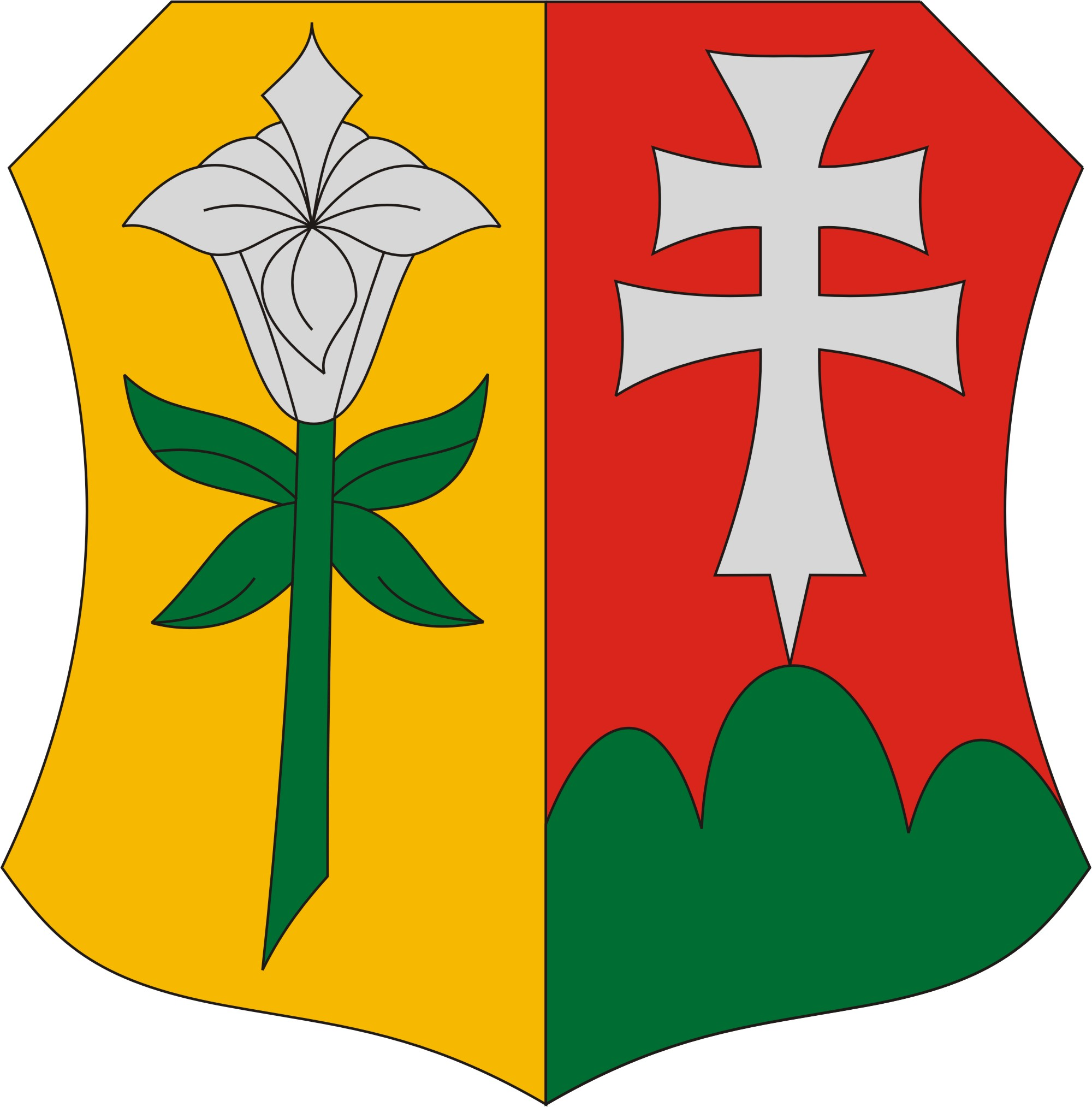 Seal of Újszentmargita